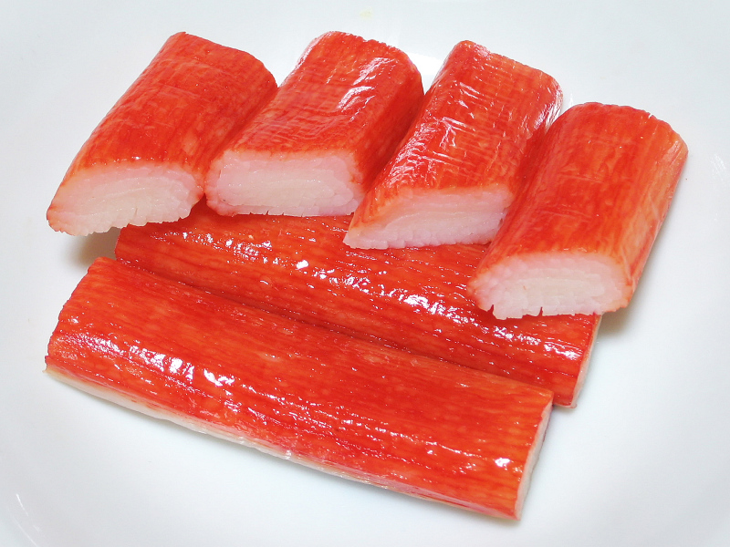 Kanikama (Surimi), taken by original uploader on October 21st, 2006.